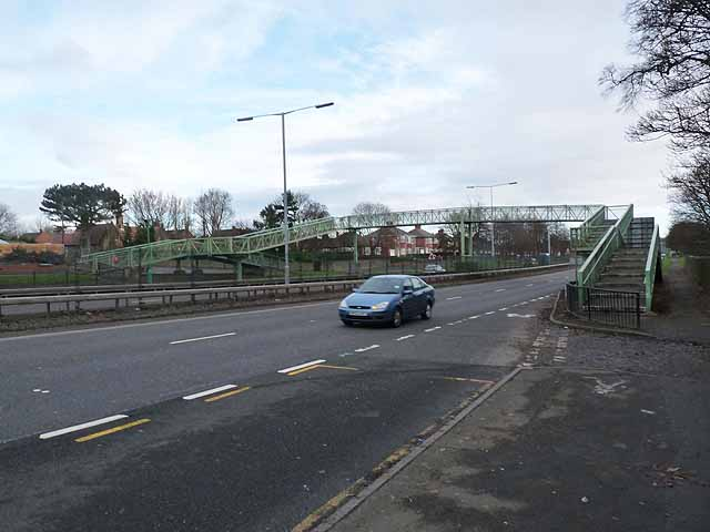 Footbridge over the A69